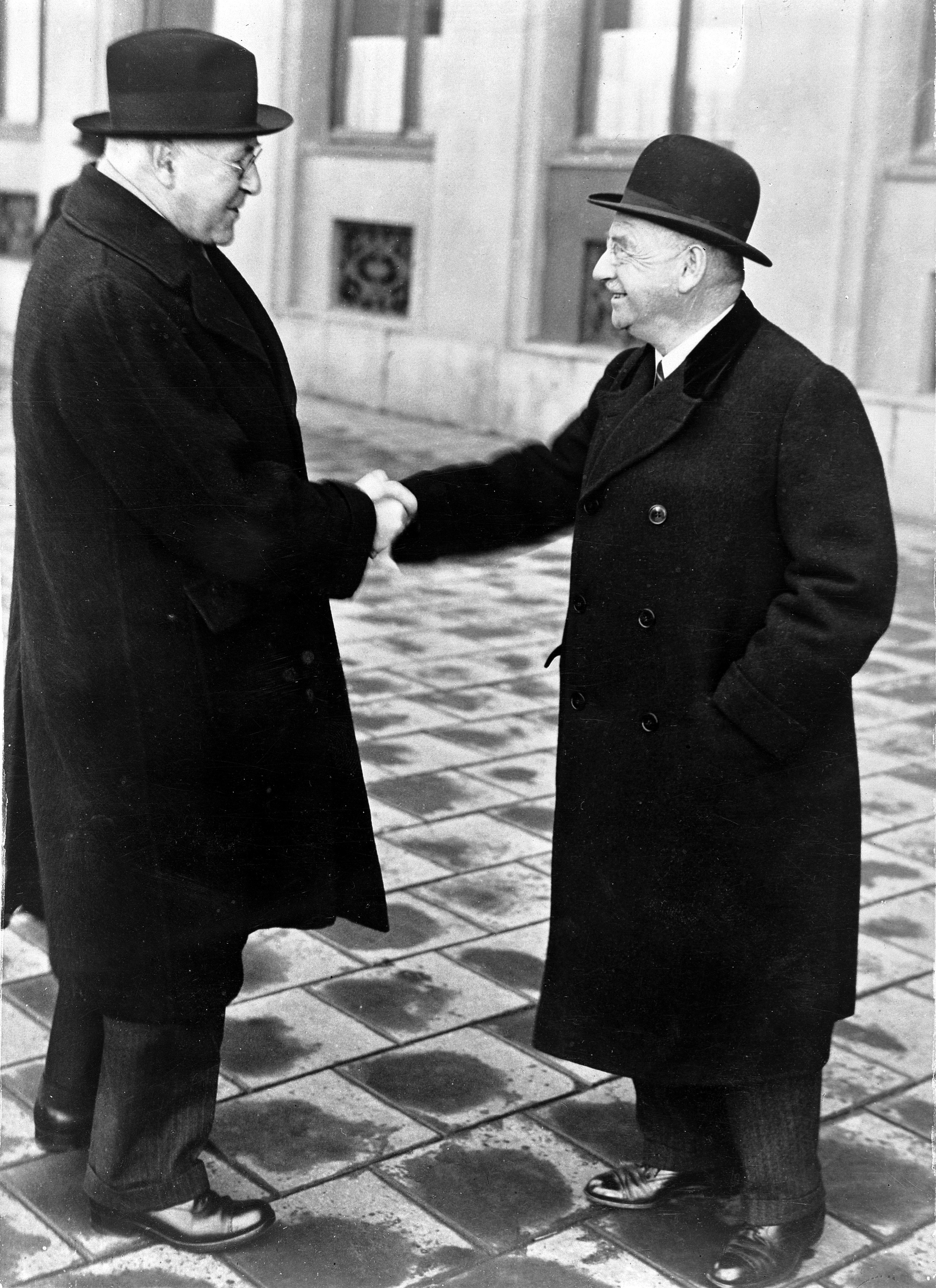 Sir Henry Dale and Professor Otto Loewi outside the Grand Hotel, Stockholm at the time of the presentation to them of the Nobel Prize for the Physiology and Medicine, 1936.